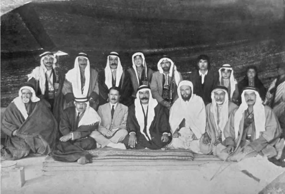 A meeting of exiled Syrian rebel leaders in the desert at Wadi Sirhan. Sultan Pasha al-Atrash is seated in the middle. To his left are Sheikh Muhammad al-Ashmar and Abd al-Qadir al-Sukkar. The second to his right is Sa'id al-'As